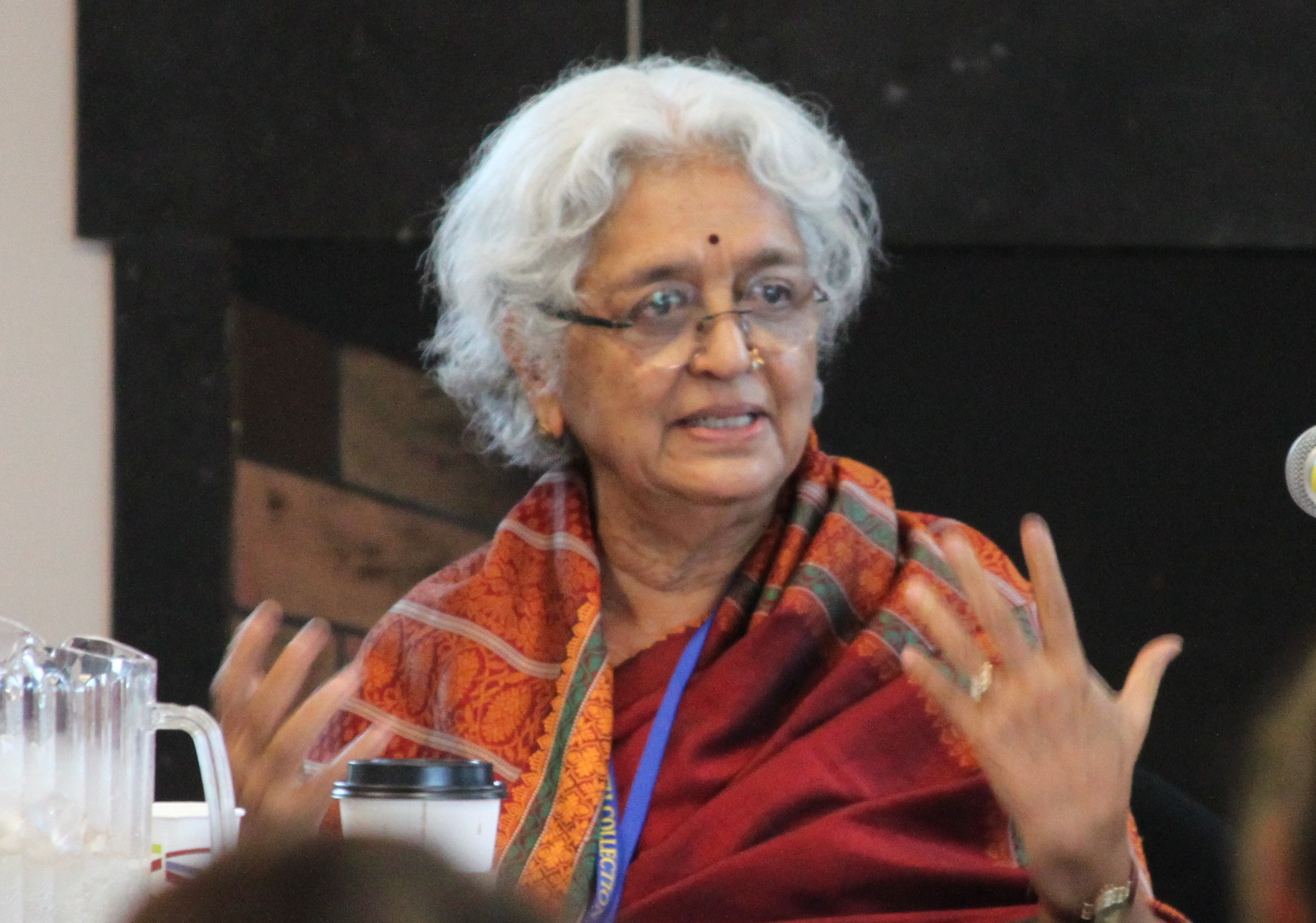 At the 2011 Berkshire Women's History Conference